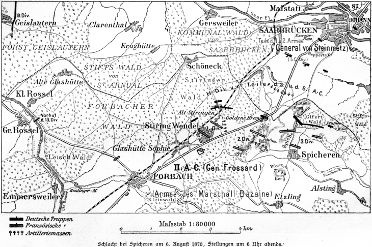 Map, showing the French and German positions during the Battle of Spicheren or Spichern, at 6 p.m., 6. August, 1870